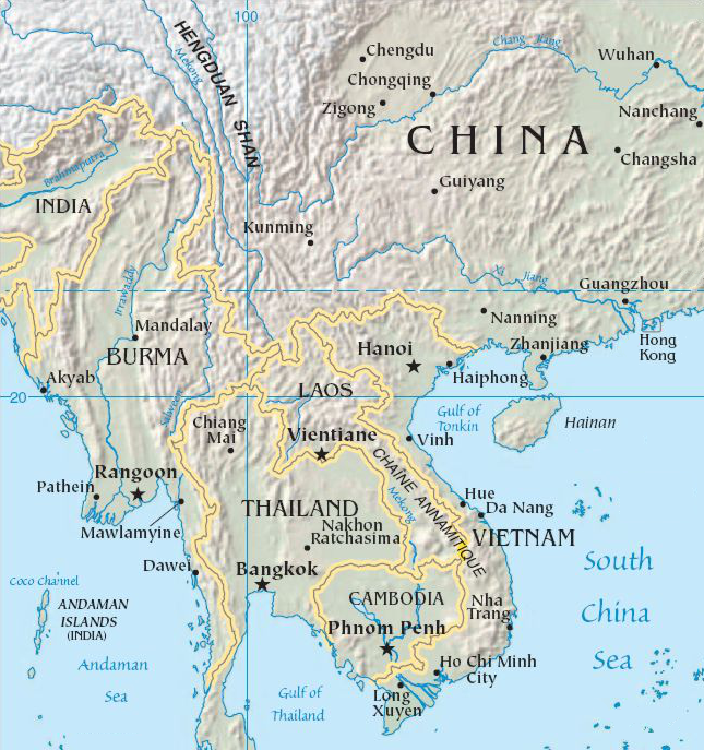 Map of mainland Southeast Asia